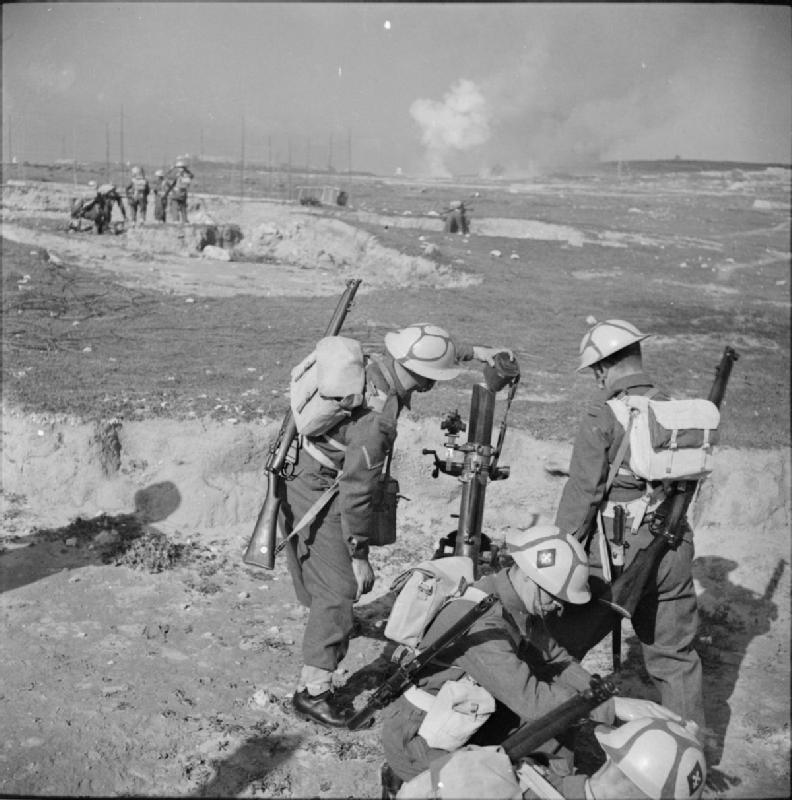 The British Army on Malta 1942 A 3-inch mortar team laying a smoke screen during a demonstration exercise, 13 April 1942. Note helmet camouflage.